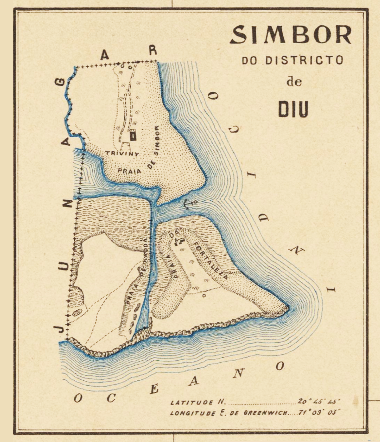 Basic map of the territory of Simbor, an exclave of the District of Diu located 25 km east of the city of Diu. This 1 sq. km territory comprised an island on which was built Fort St. Anthony of Simbor and, on the mainland bordering the Princely State of Junagadh (British India), two small strips of land on each side of the mouth of a small river. One end of the channel separating the island from the mainland appears to be blocked. That map is an insert of a Portuguese map of the District of Diu (Portuguese India) titled Carta topographico-agricola do districto de Diu. Published in 1911 by the Cartography Commission (Commissăo de cartographia).